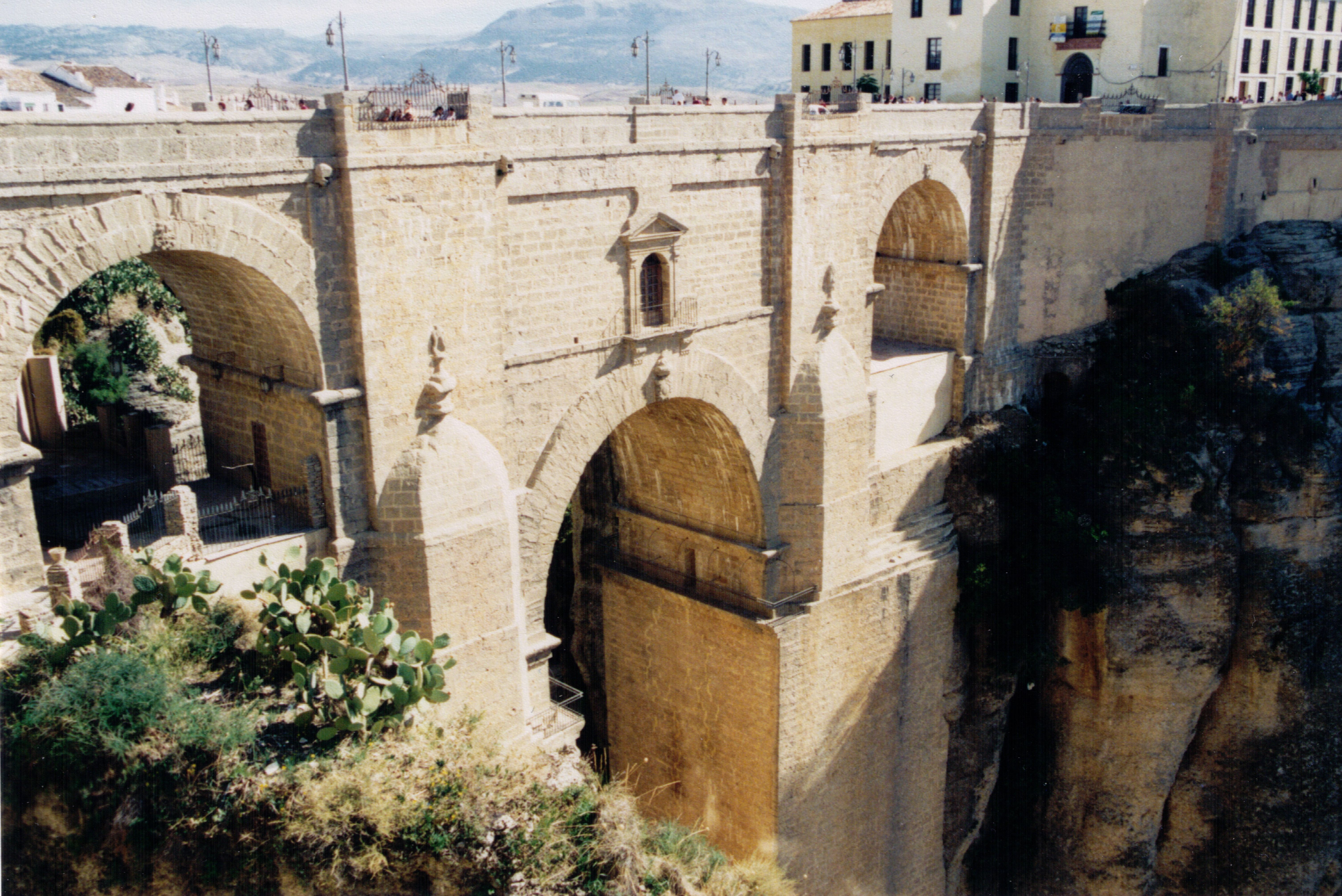 ronda